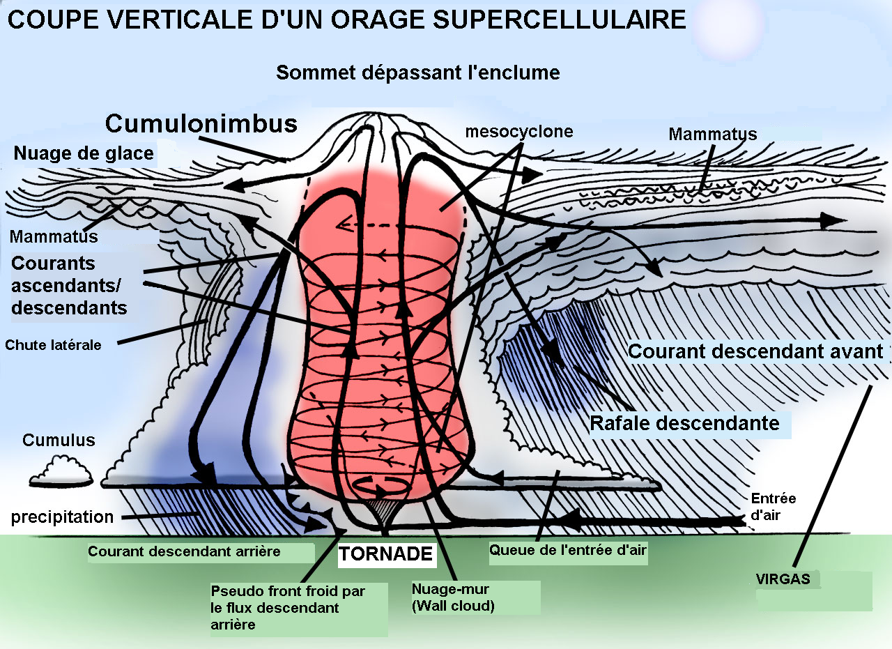 side view of a supercell thunderstorm in French